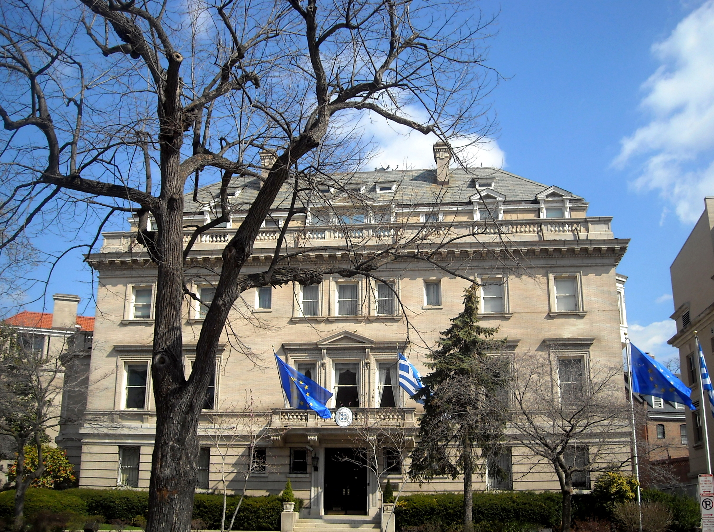 The Embassy of Greece (chancery and ambassador's residence; one of four buildings which comprise the Greek embassy complex) located on Embassy Row at 2221 Massachusetts Avenue, NW in the Sheridan-Kalorama neighborhood of Washington Designed by local architect George Oakley Totten, the Beaux-Arts 35-room mansion was constructed for Hennen Jennings in 1907. The building has served as the Greek embassy since the late 1940s and is valued at $9,708,160. It's a contributing property to the Massachusetts Avenue Historic District and Sheridan-Kalorama Historic District.